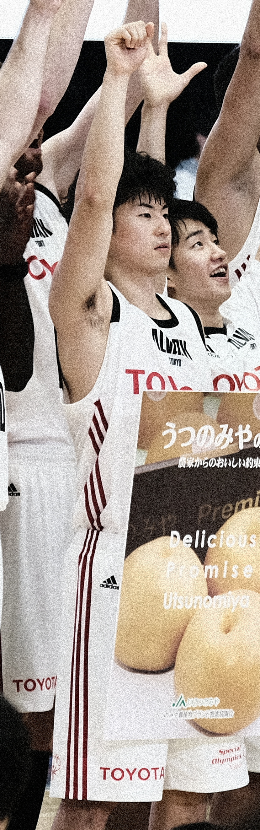 B League Early Cup 2018 Kanto